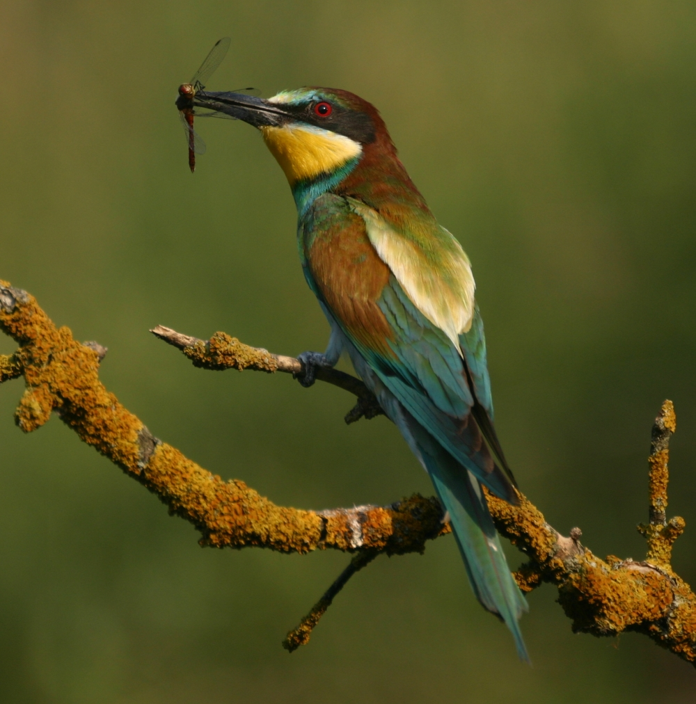 European Bee-eater (Merops apiaster), Nagycenk, Hungary